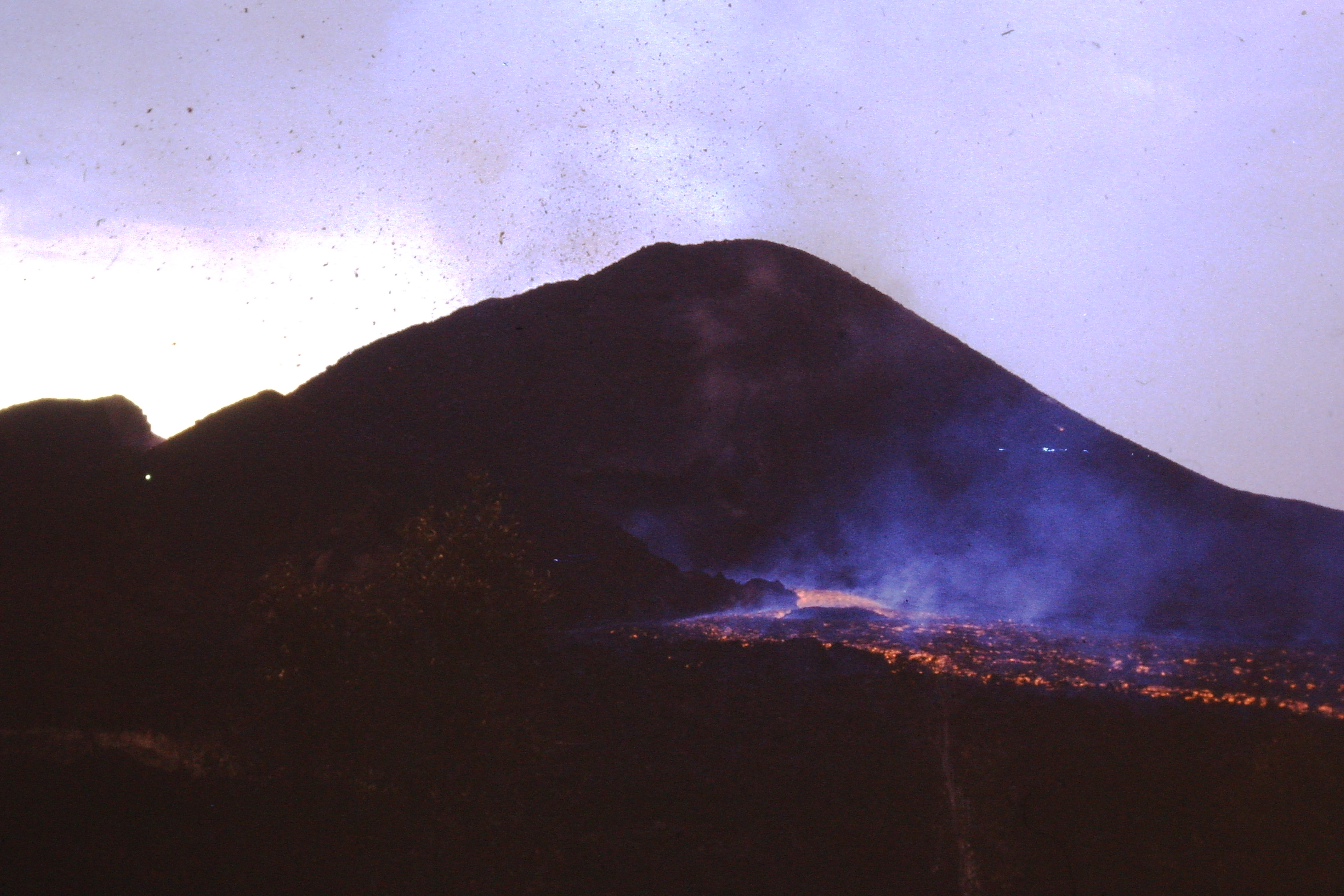 Murara was a small, short-lived, cinder cone on the flank of Mount Nyamuragira, that began erupting on December 23, 1976. Eruptions from Murara reduced considerably after the eruption of Mount Nyiragongo on January 10, 1977 and ended completely in April 1977. Photo taken at time of maximum activity, two days before the Nyiragongo eruption.